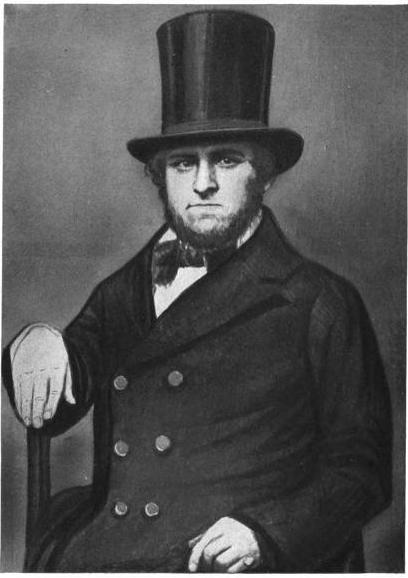 Picture of Benajamin H. Day, who founded the New York Sun in 1833.